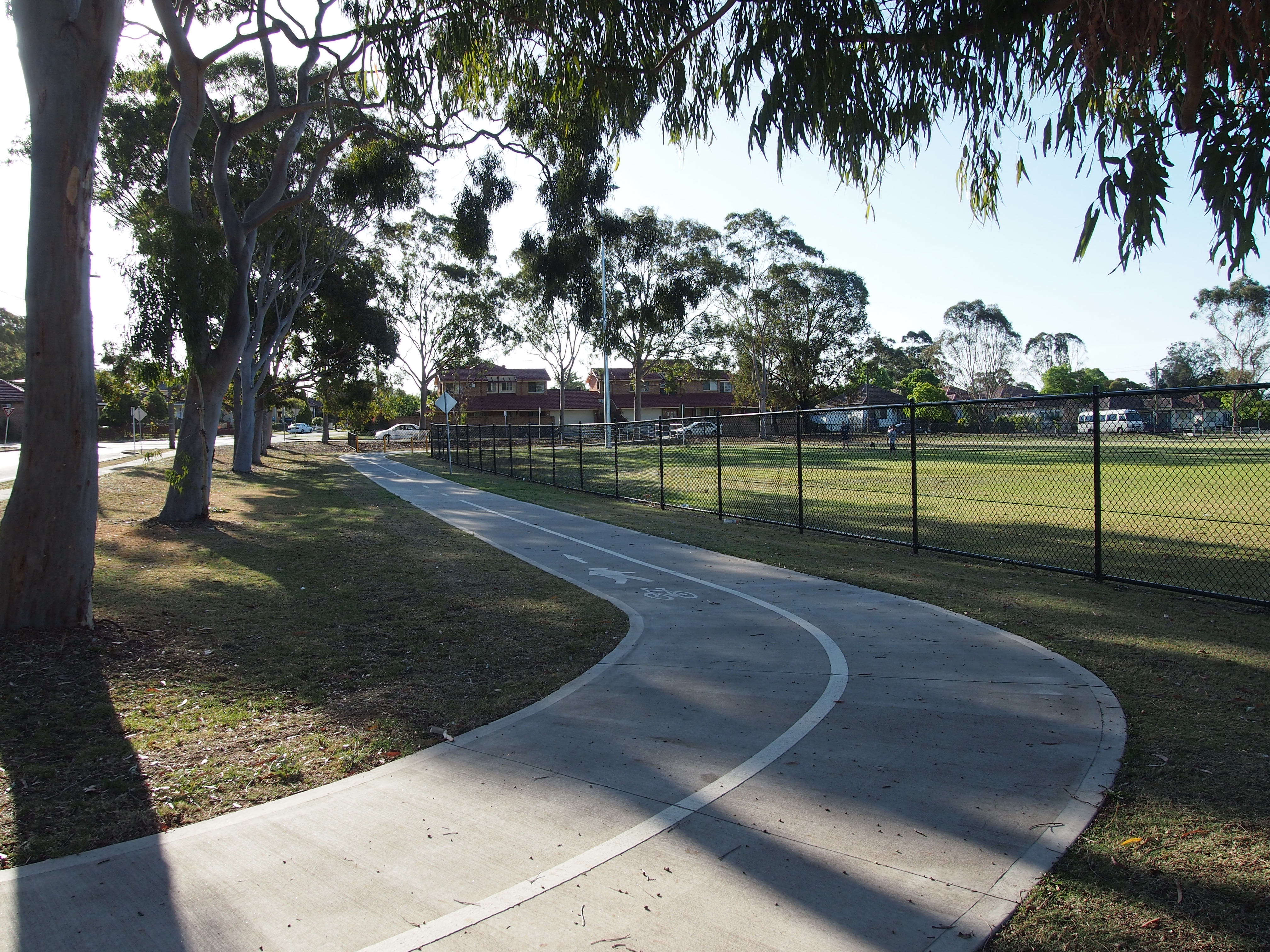 Part of a bike path at the southern edge of the Jim Ring Reserve in Birrong